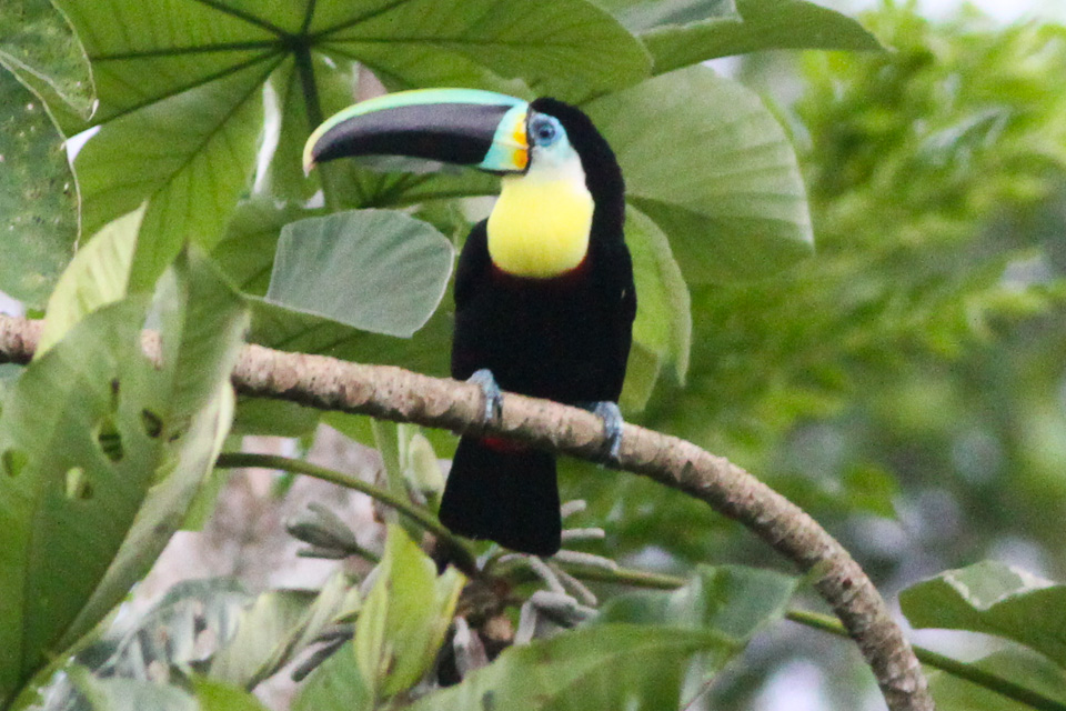 Ramphastos vitellinus citreolaemus (Citron-throated Toucan)